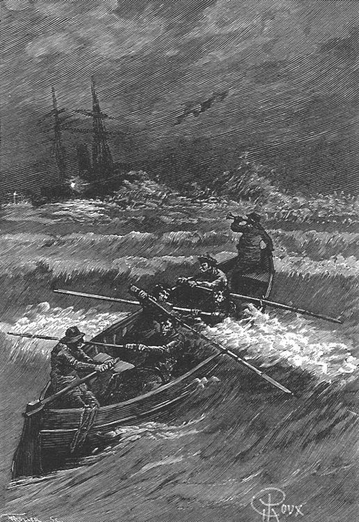 An illustration from André Laurie's (pseudonym of Jean François Paschal Grousset) and Jules Verne's novel "The Waif of the Cynthia" (1884) drawn by George Roux.